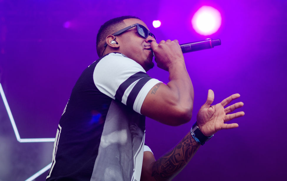 Brandon Beal Live Smukfest Copenhagen 2014